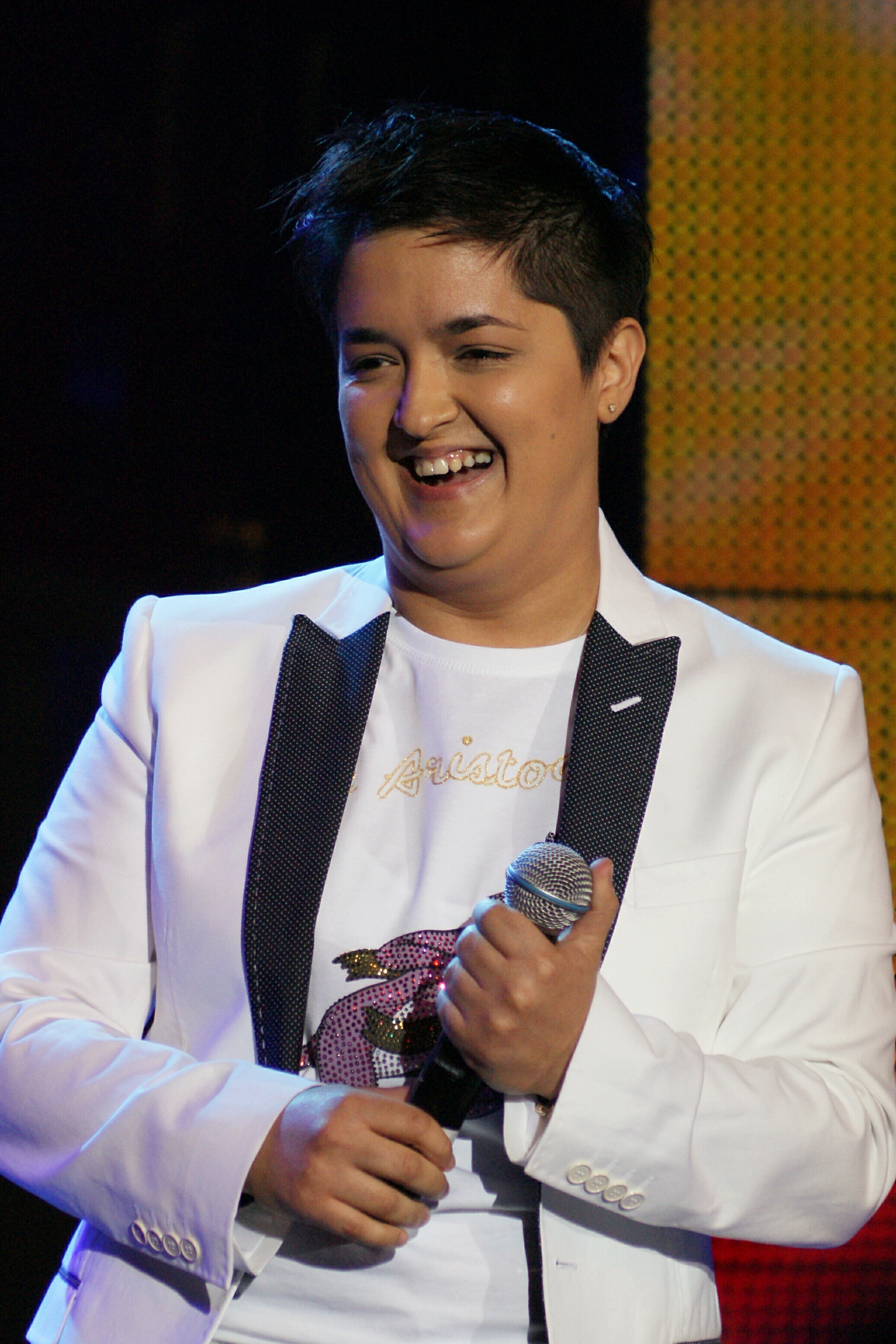 Marija Šerifović in Moscow, 2009